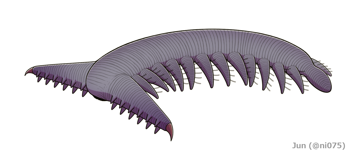 Reconstruction of Siberion lenaicus, a cambrian siberiid lobopodian. Details of frontal appendages and lobopods are conjectural.